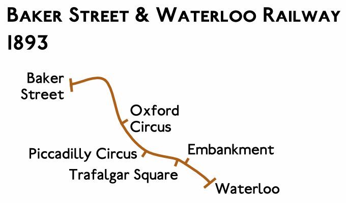 Geographic Map of the Baker Street & Waterloo Railway route, 1893.